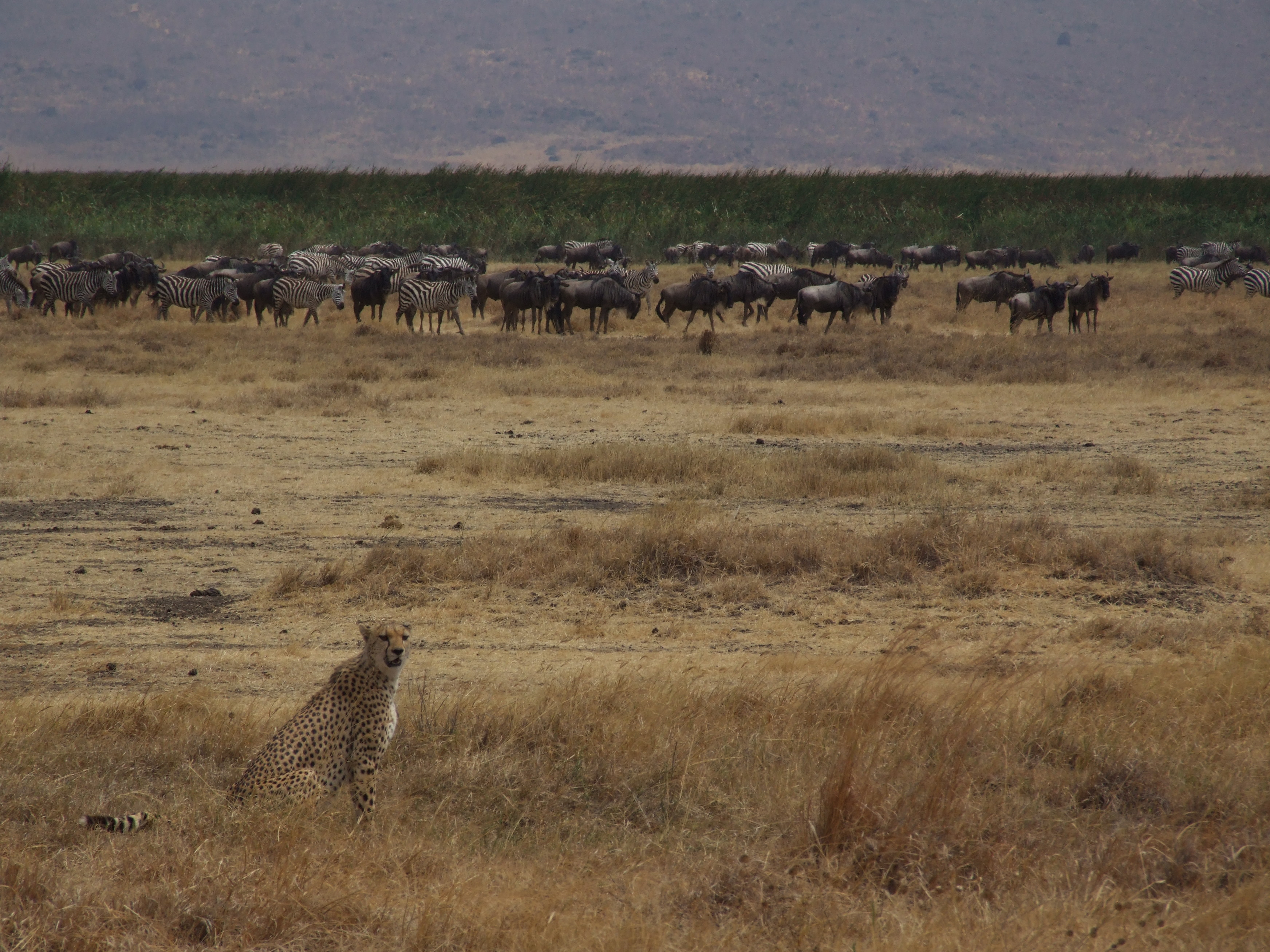 Cheetah in Ngorongoro